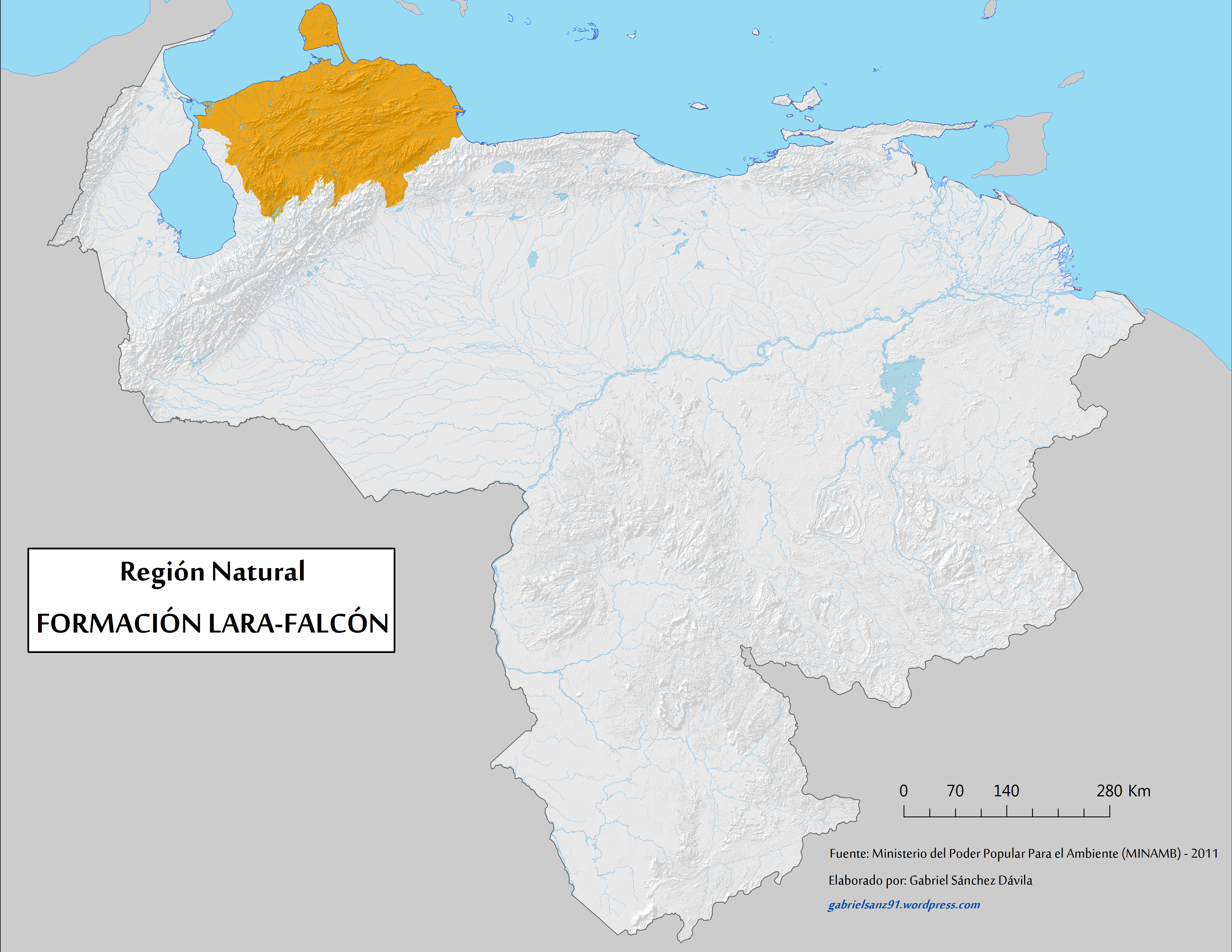 Lara-Falcon System (Coro region) natural region